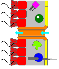 Main cell types in a sponge, to be annotated with Template:Annotated image. Colour coding: Choanocyte Pinacocyte Lophocyte Oocyte Archeocyte / amoebocyte Sclerocyte Porocyte Mesohyl Spicule Water flow Ref: Ruppert, E.E., Fox, R.S., and Barnes, R.D. (2004) Invertebrate Zoology (7th ed.), Brooks / Cole, p. 82 ISBN: 0030259827.